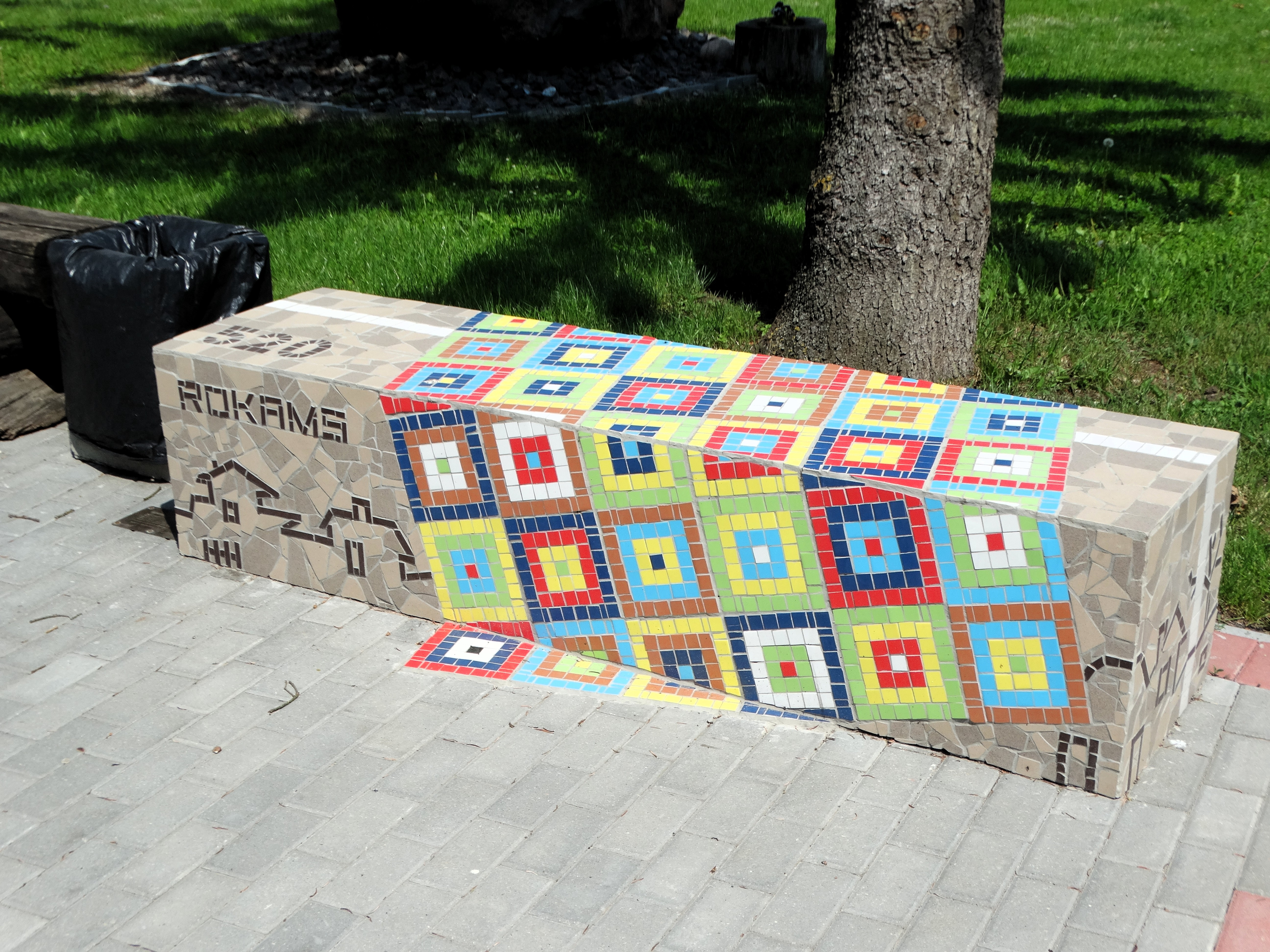 Bench, 520 years to Rokai (Kaunas), Lithuania